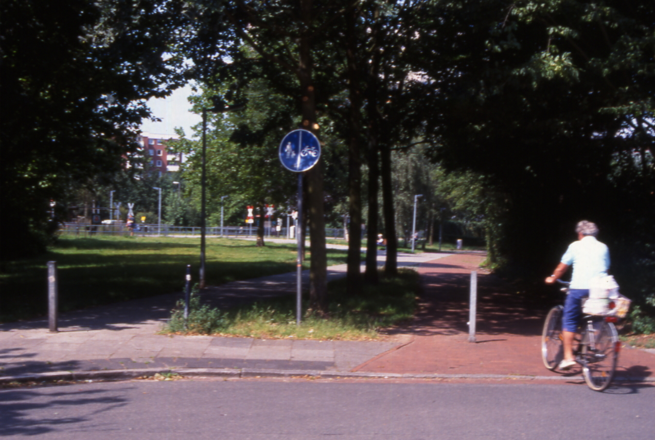 Cycle path in a garden town suburb of Bremen